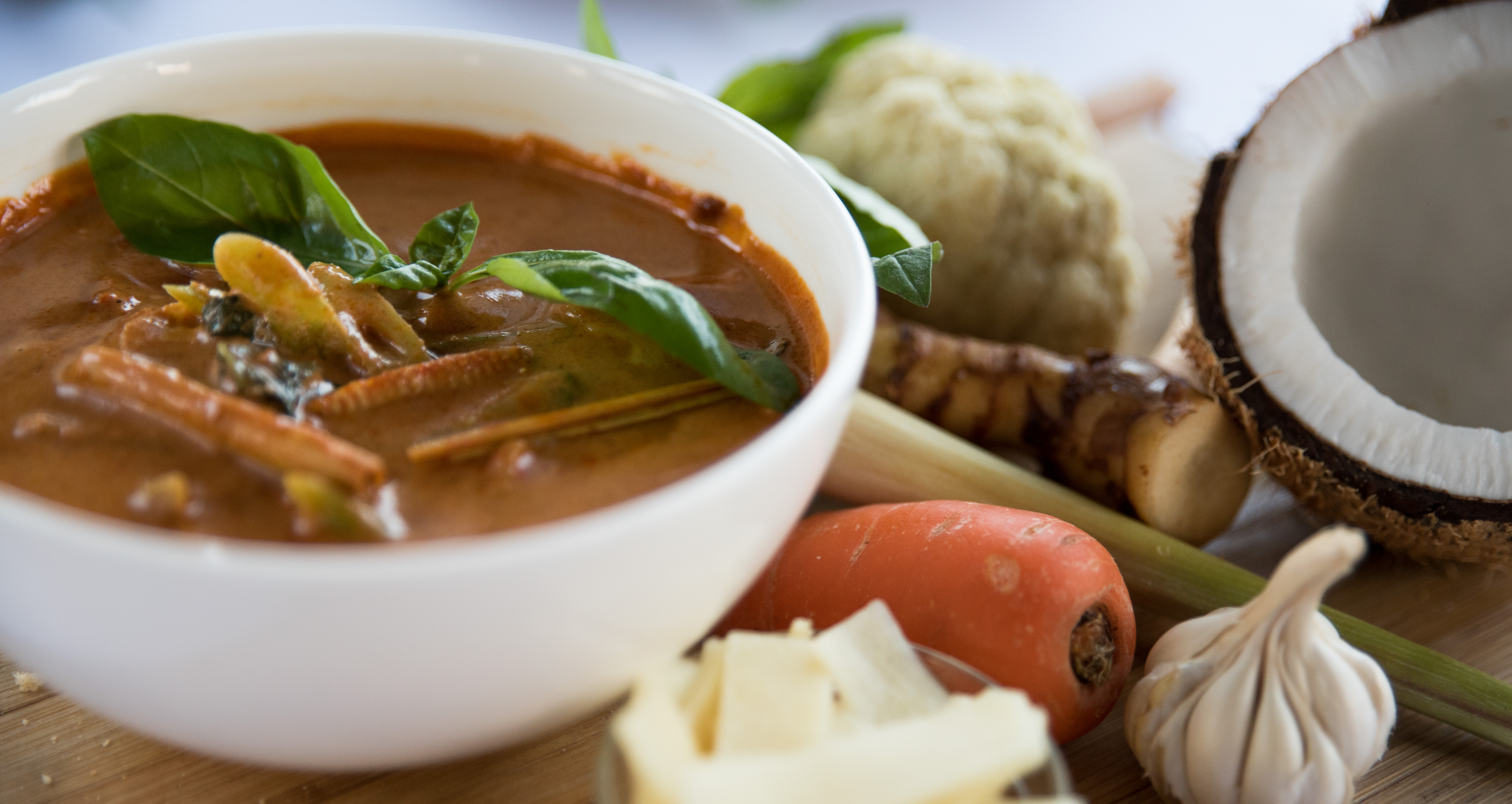 _CSP0755